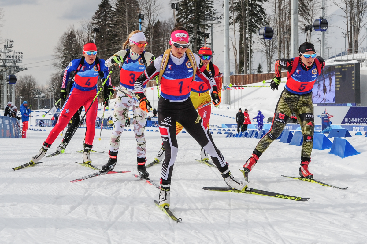 Биатлон, смешанная эстафета. III Зимние Всемирные Военные Игры. Лыжно-биатлонный комплекс «Лаура», Сочи, Россия. 25 февраля 2017. Фото Alexander Fedorov/CISM2017Biathlon, Mixed Relay. 3rd CISM World Winter Games. Laura Cross-Country Ski&Biathlon Centre, Sochi, Russian Federation. February 25, 2017. Photo by Alexander Fedorov/CISM2017